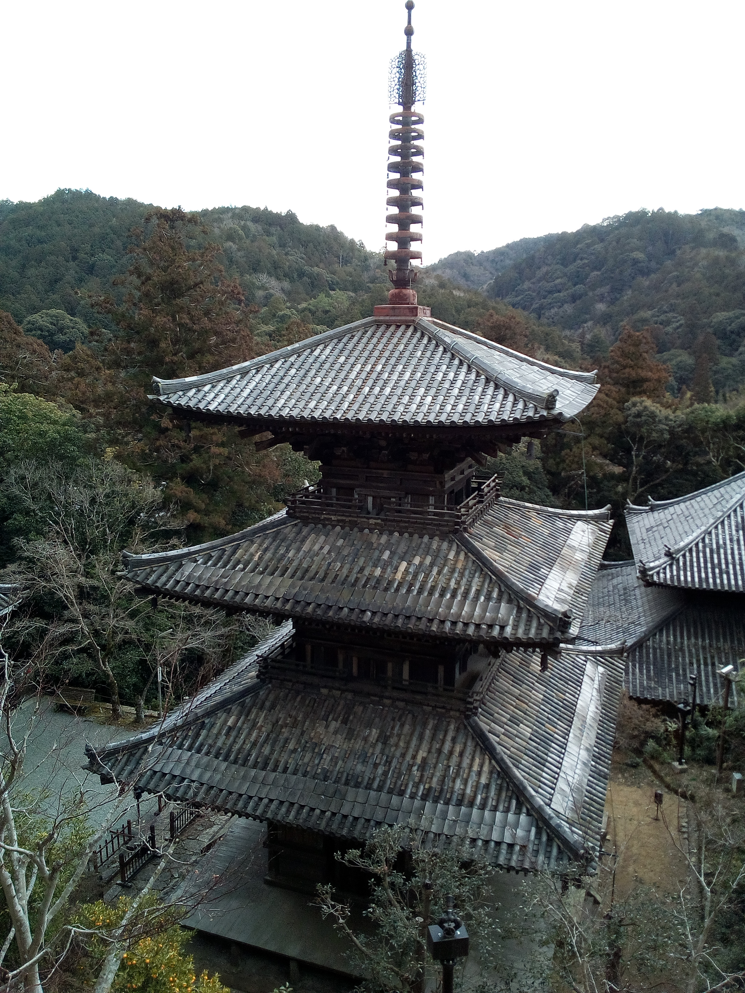 The three-storied pagoda at Ichijō-ji, dating from 1171